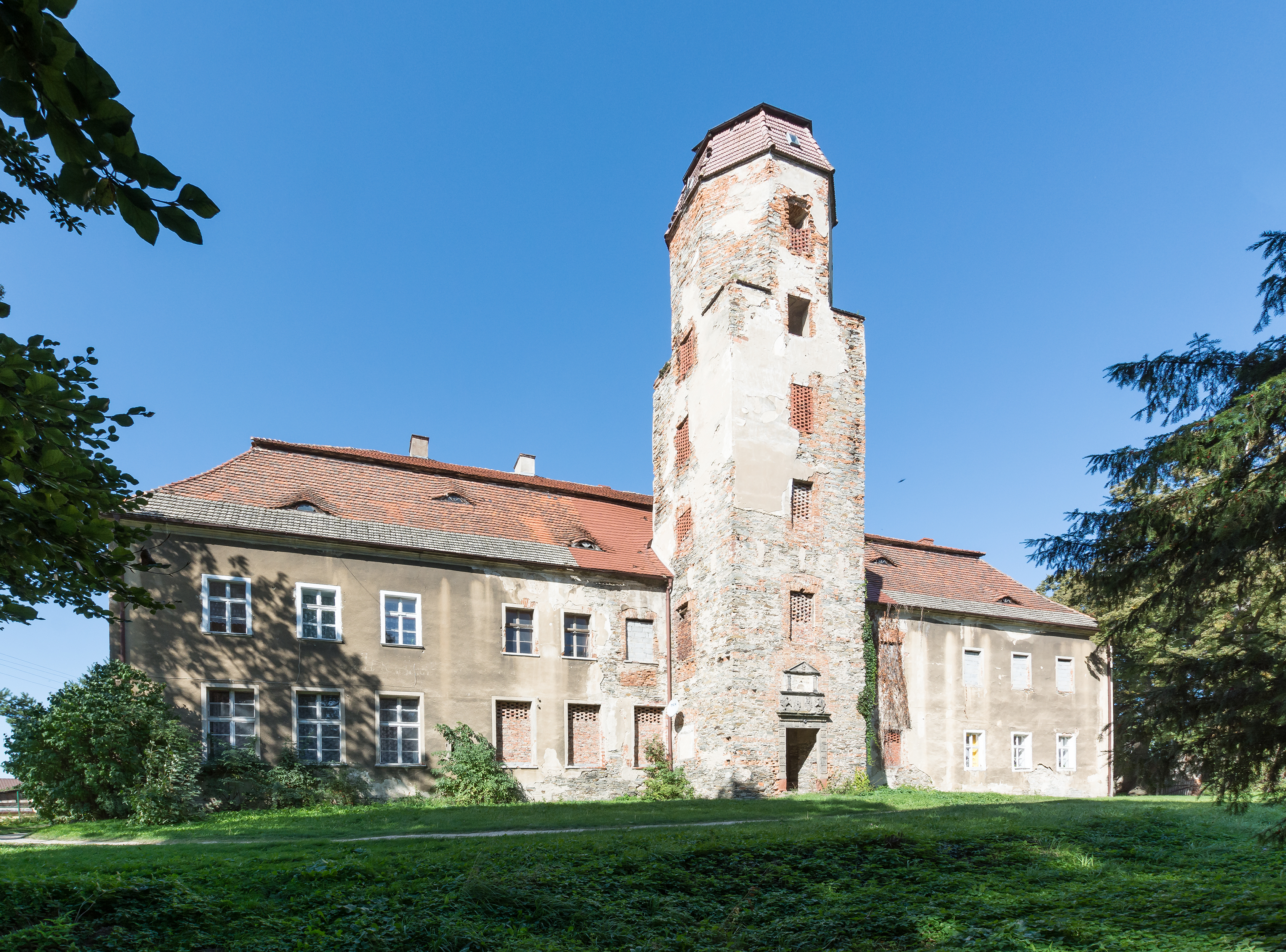 Manor in Służejów